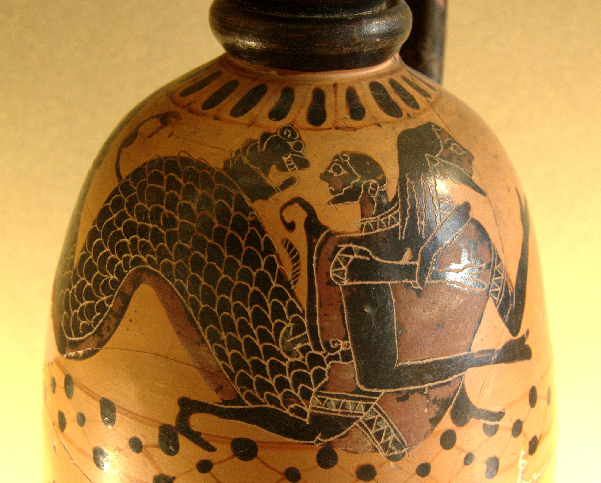 Heracles and Nereus. Top of a black-figured lekythos, ca. 590–580 BC. From Boeotia.